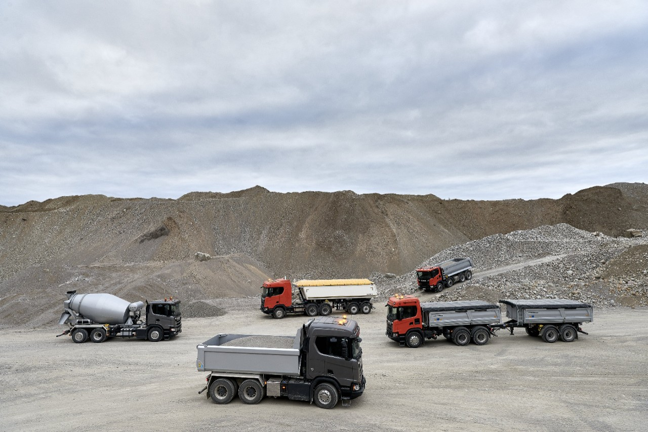 Scania XT series